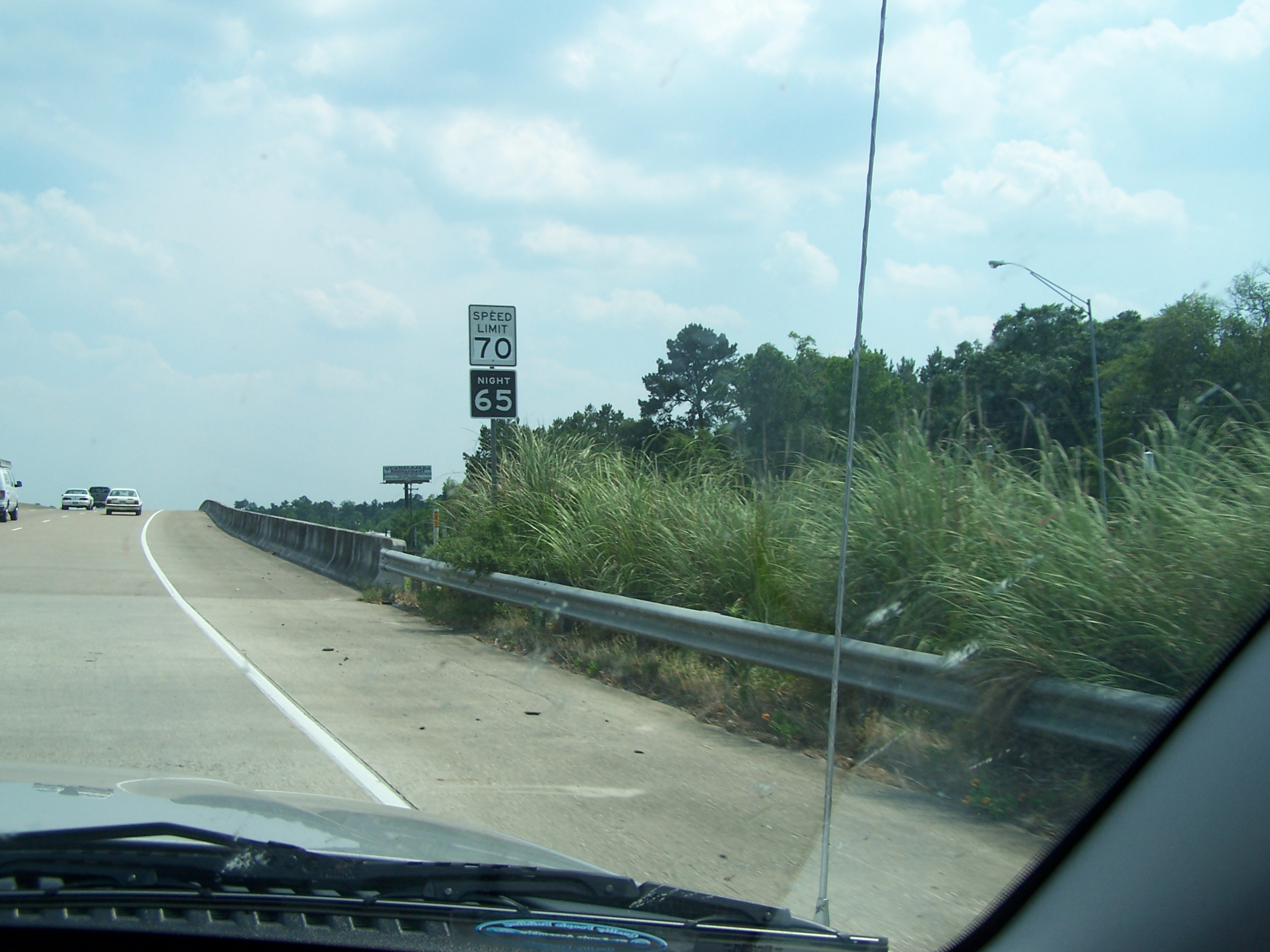 Typical Texas rural speed limit sign with the 70 MPH day speed limit (white background) and the 65 MPH night speed limit (black background). Texas is one of very few states with a widespread night speed limit. Notice how the 70 digits are pasted on the sign. A lot of the 70 MPH signs in the vicinity of Beaumont have the pasted digits. This is unusual for Texas.